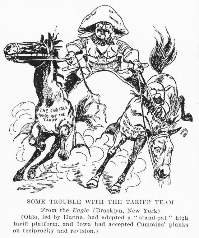 US editorial cartoon 1901. President Teddy Roosevelt watches GOP team pull apart on tariff issue.